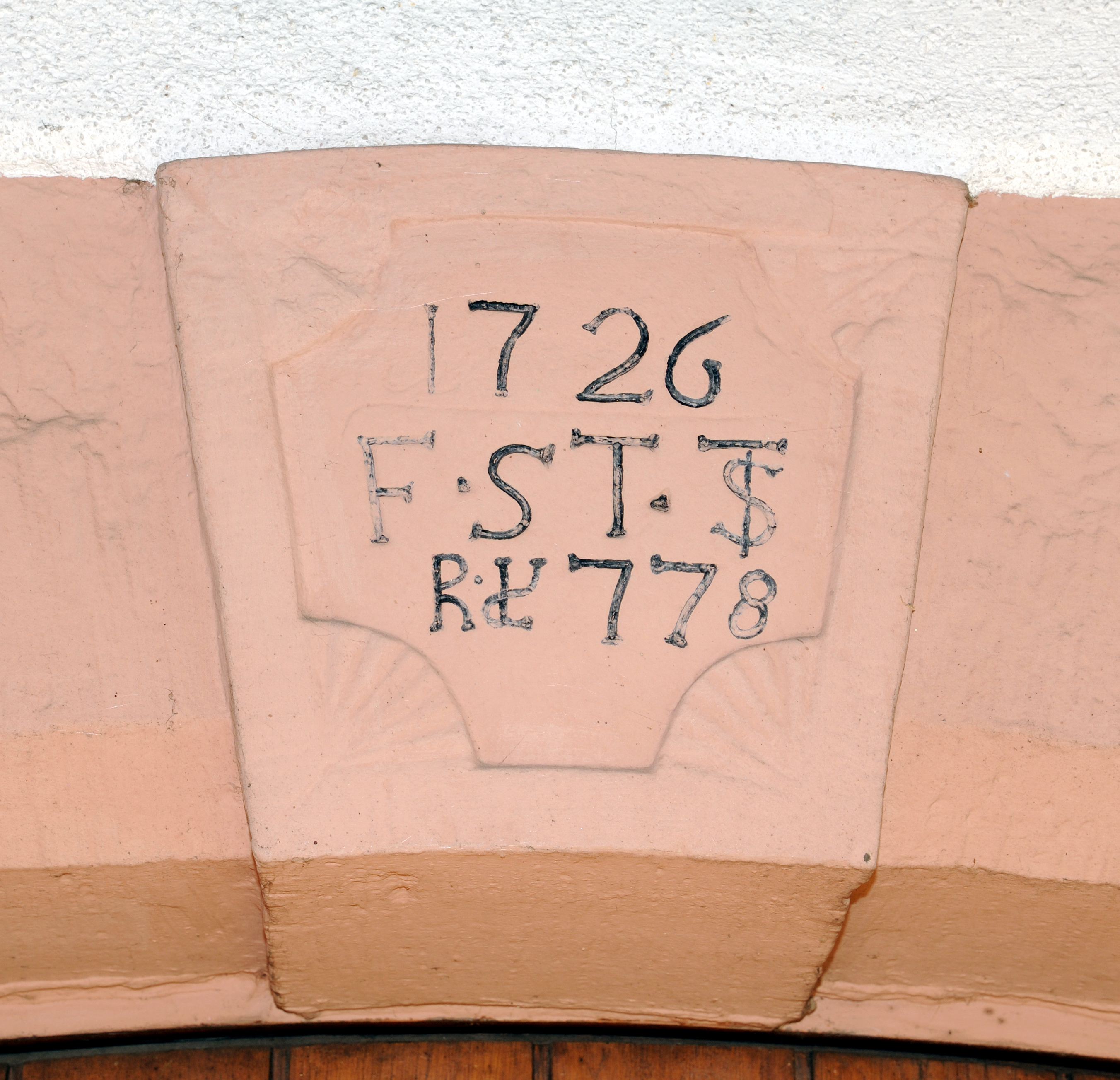 Steinen-Hüsingen: Protestant Church